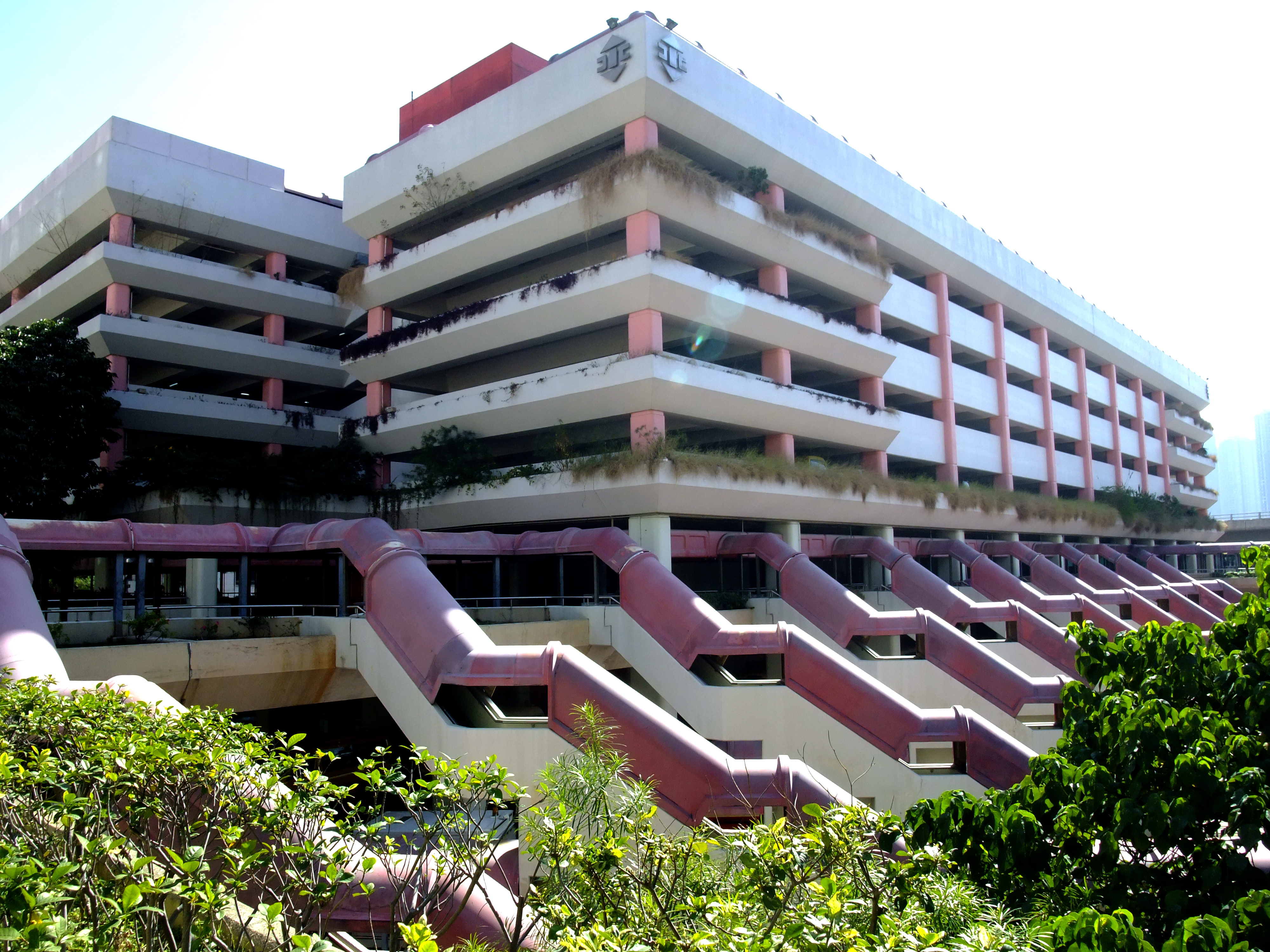 Tsuen Wan Transport Complex - Bus terminus & car park. Tsuen Wan, Hong Kong.